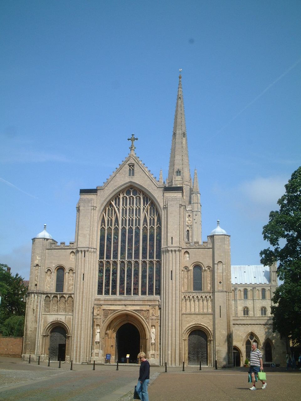 The Protestant Cathedral of the Holy and Undivided Trinity in the city of Norwich, England. Photo taken on a FujiFilm Finepix 40i digital camera by Paul Hayes in 2005, and uploaded to Wikimedia by same.